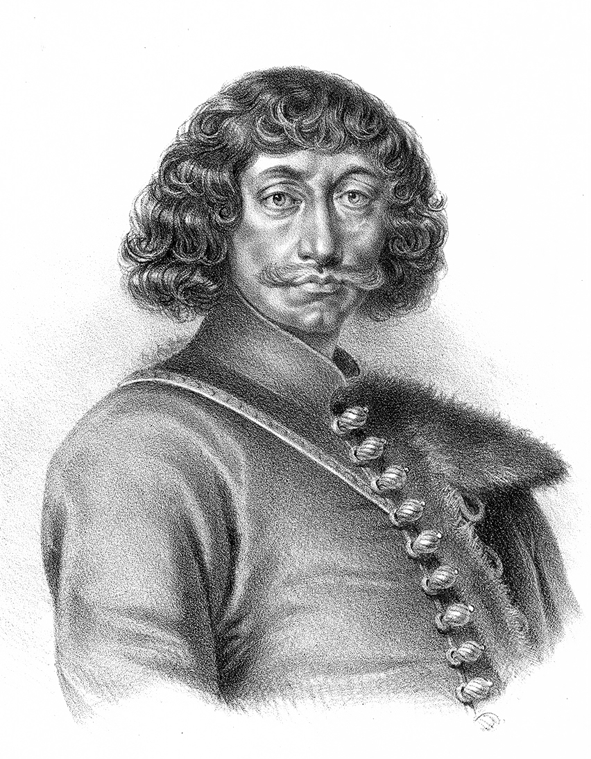 Zrinyi Miklós